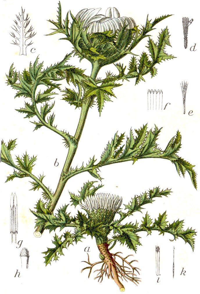 Carlina acaulis subsp. simplex (Waldst. & Kit.) Nyman, syn. Carlina acaulis subsp. caulescens (Lam.) Schübl. & G.Martens, Carlina chamaeleon Vill. Original Caption Niedrige Wetterdistel, Carlina chamaeleon